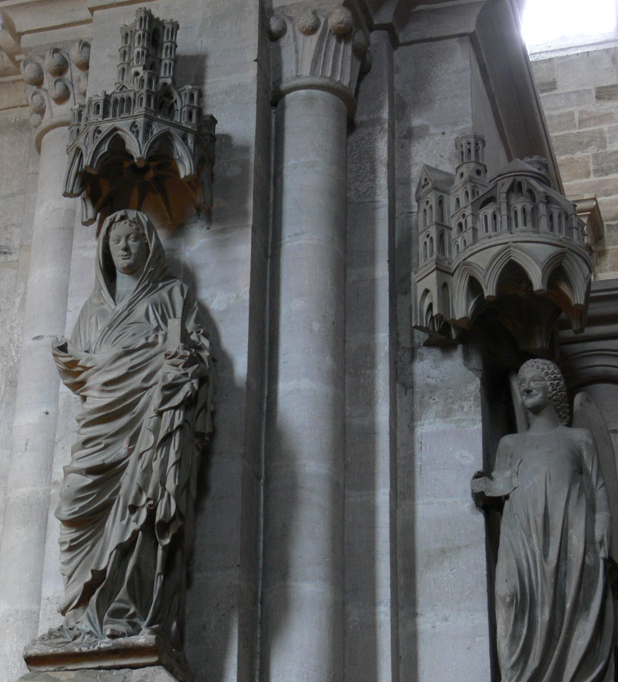 sights of Bamberg, Germany